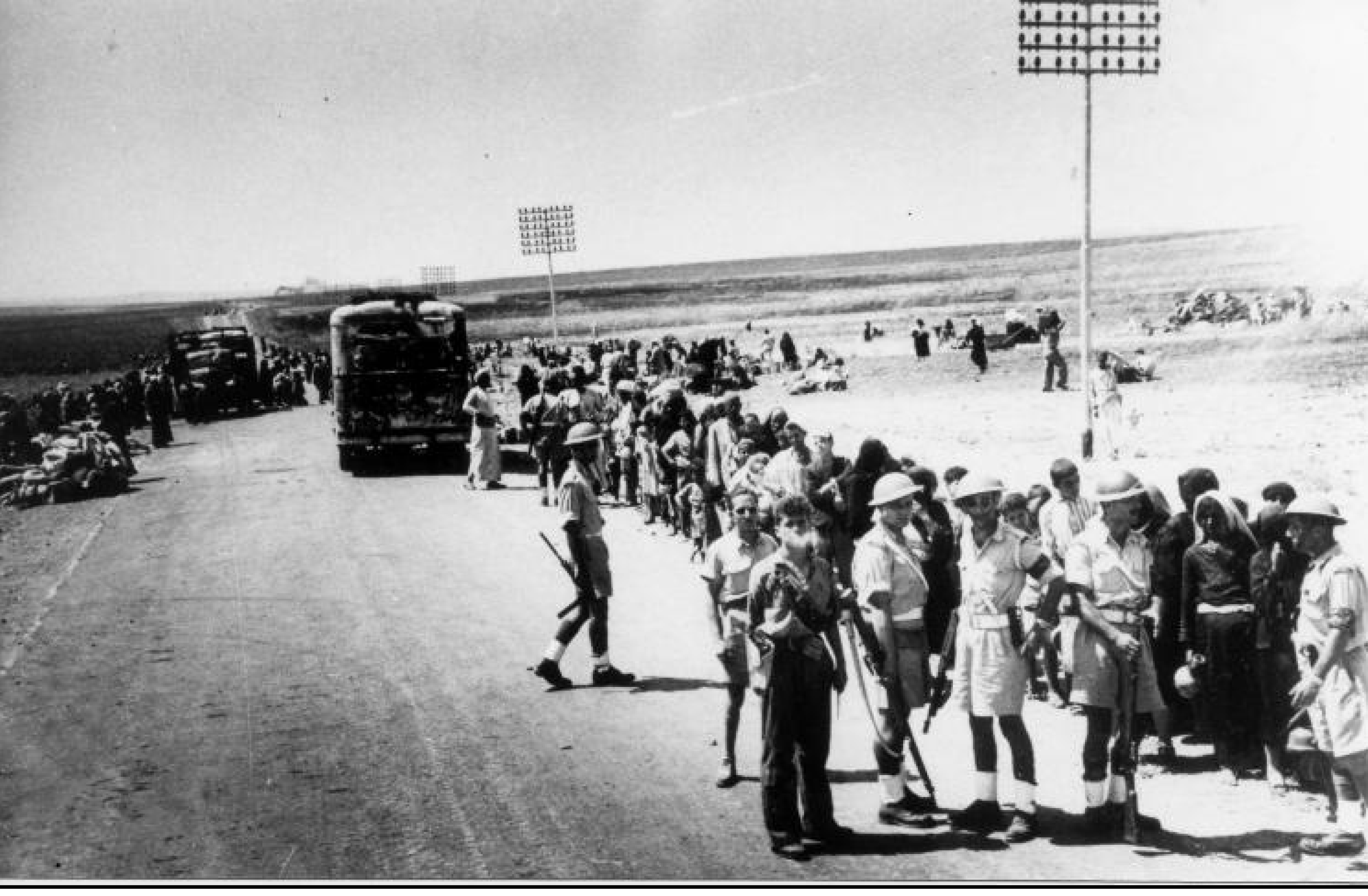 From Palmach archive. Operation Danny